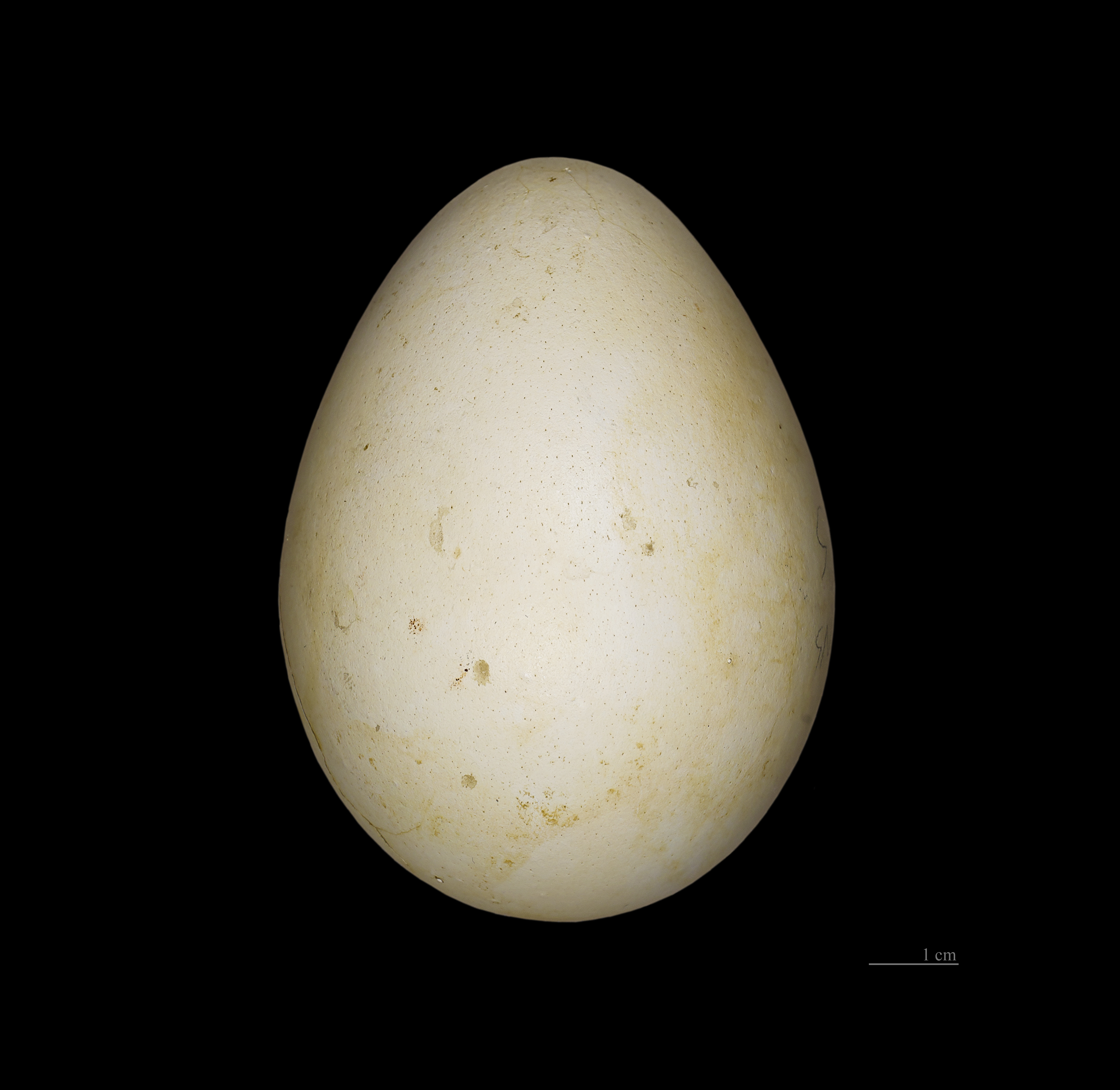 Egg of Goldschopfpinguin. Collection of Jacques Perrin de Brichambaut. Locality: Kerguelen Islands.